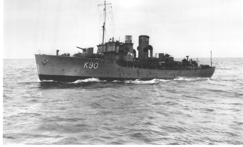 Photograph of British Flower class corvette HMS Gentian (K90).